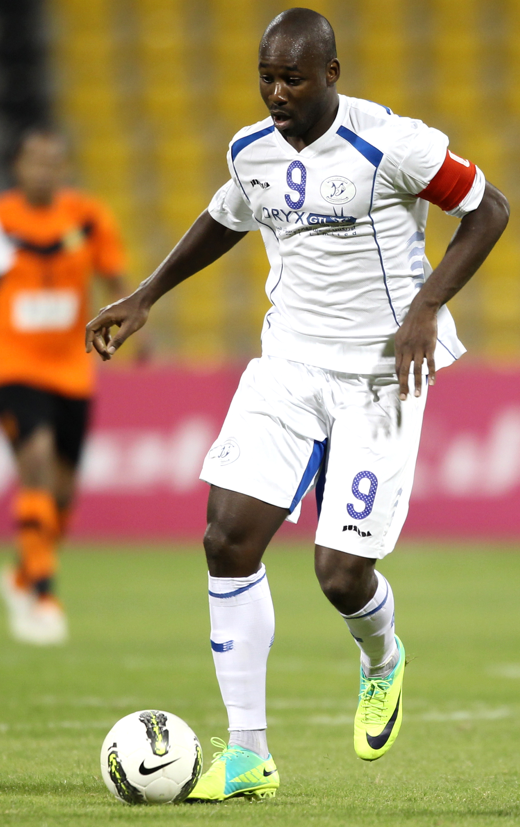 Al Kharaitiyat captain Yahya Kébé, from Burkina Faso, runs with the ball during a Qatar Stars League match.